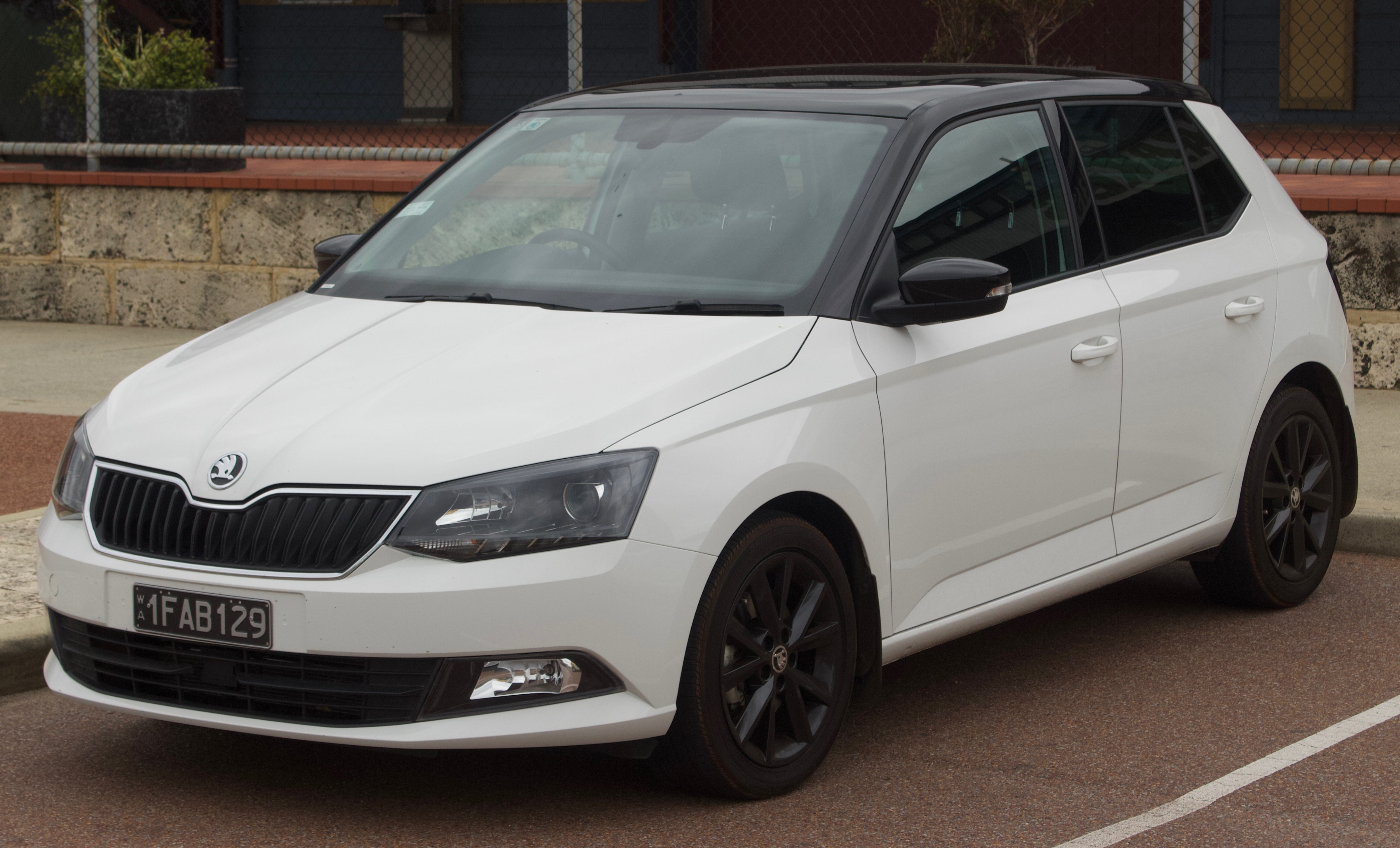 2018 Skoda Fabia (NJ MY18.5) 81TSI hatchback. Photographed in Fremantle, Western Australia, Australia